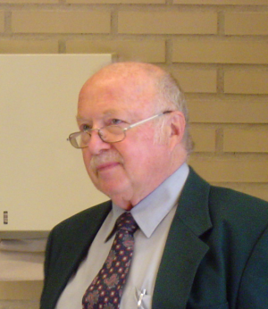 Prof. Gerhard Chroust at Johannes Kepler University Linz